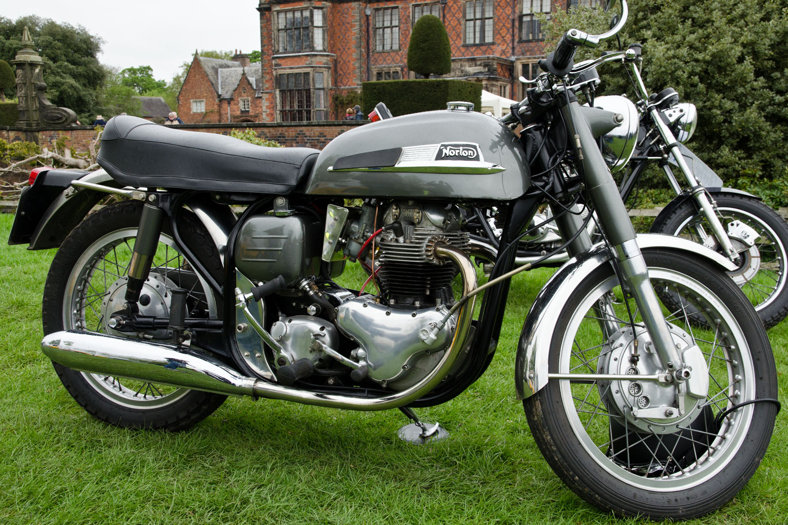 Vale Royal Classic Car Show 12/05/2013